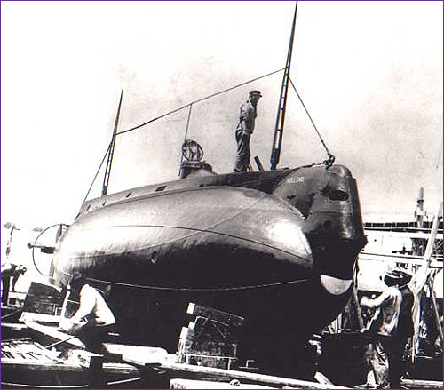 USS Holland in Drydock Hauled out of the water for repairs, circa 1900.